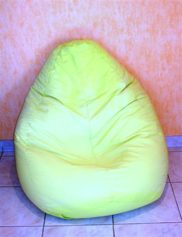 a green bean bag chair